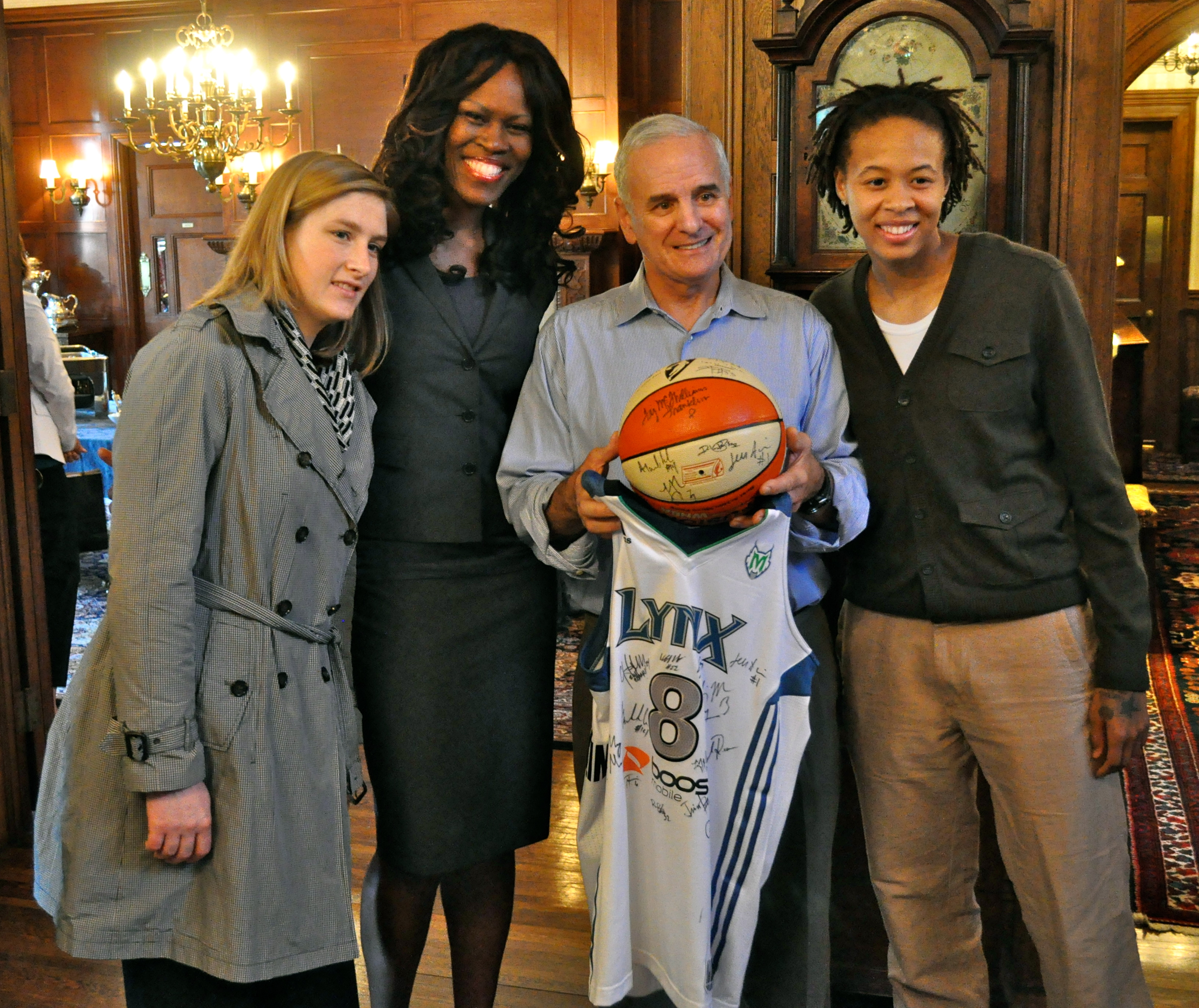 Minnesota Gov. Mark Dayton with members of the 2011 Minnesota Lynx.